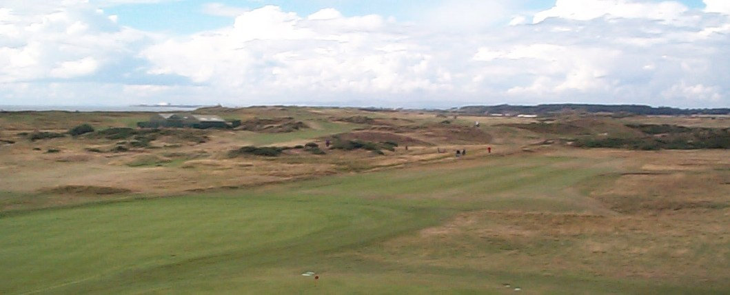 Prestwick Golf Club in Scotland 18th hole taken from second floor lounge of Prestwick clubhouse